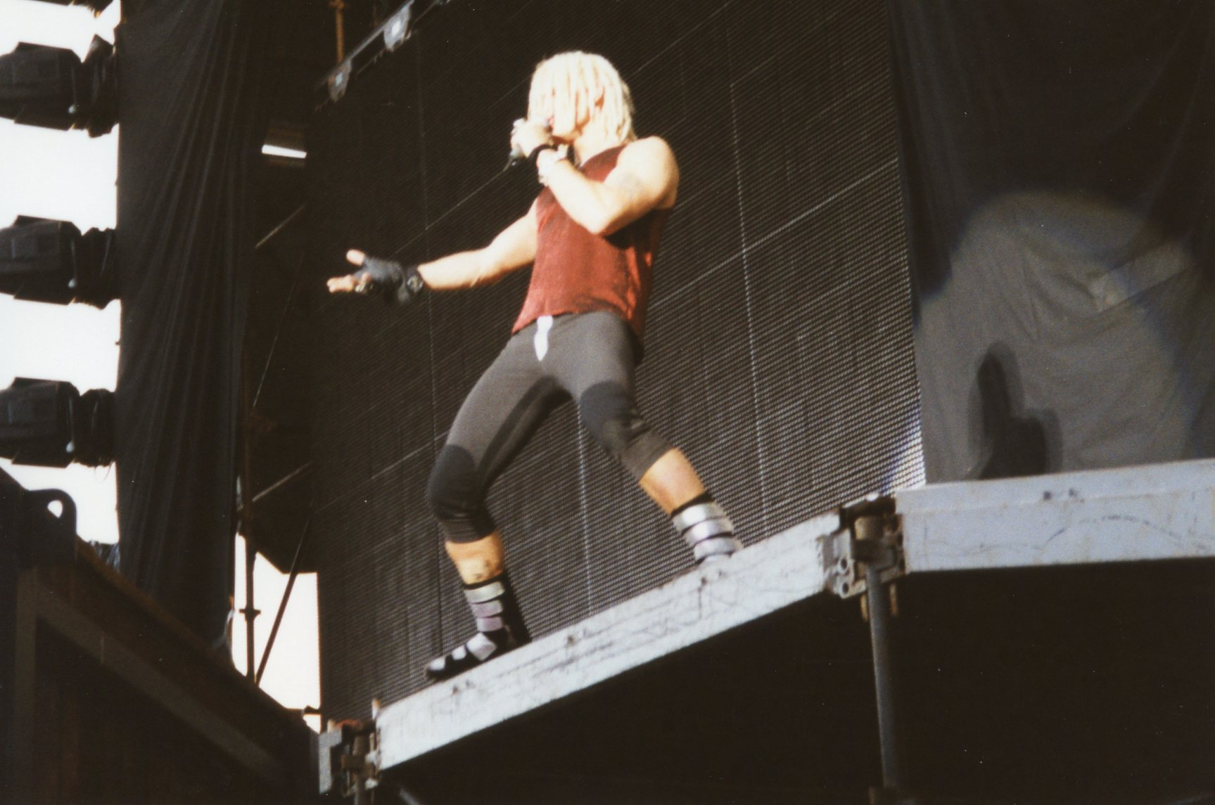 Billy Idol. Milton Keynes Bowl.